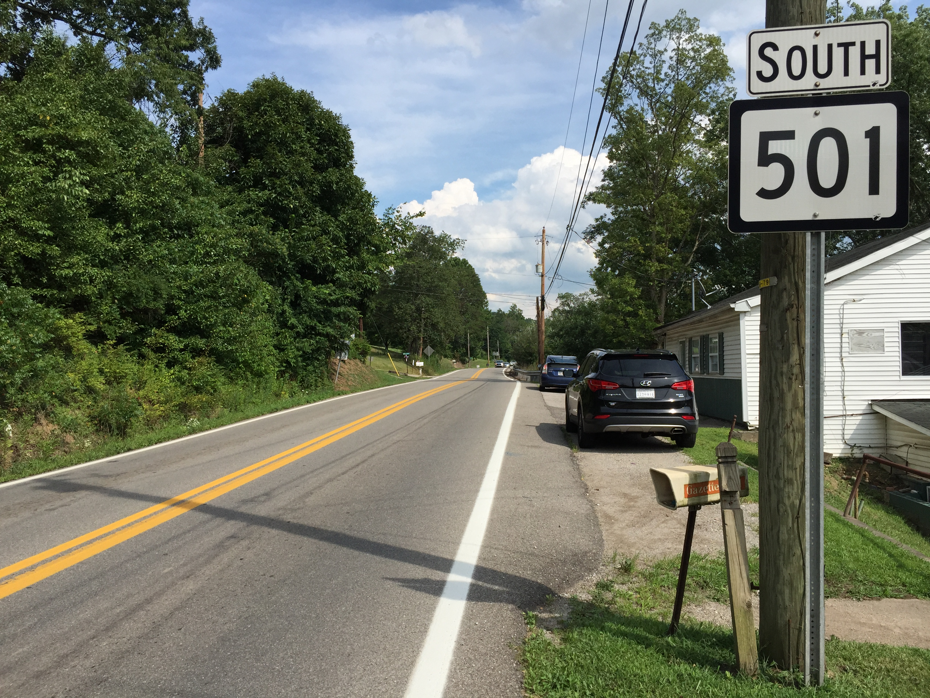 View south along West Virginia State Route 501 (Big Tyler Road) at West Virginia State Route 622 (Rocky Fork Road) in Tyler Heights, Kanawha County, West Virginia